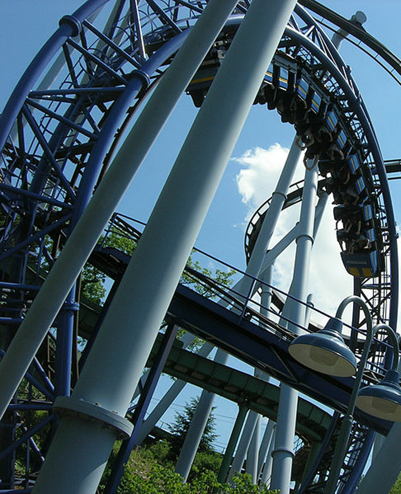 Sooperdooperlooper at Herhseypark Photo by Ryan Painter